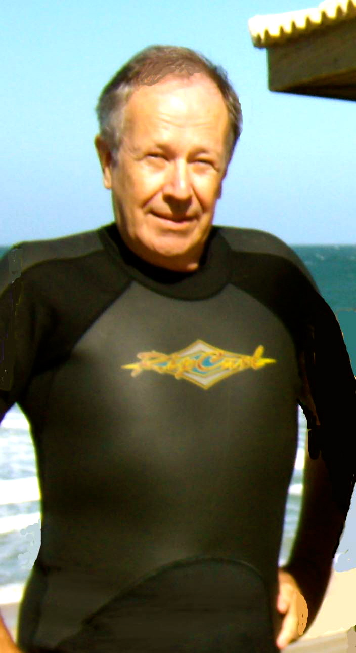 Aguinaldo on the movie set playing the part of a surfer